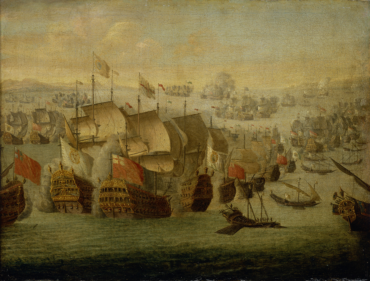 The Battle of Malaga, 13 August 1704 by Isaac Sailmaker, oil on canvas, at the National Maritime Museum, London. This shows the only fleet action fought at sea during the War of the Spanish Succession, 1701-14 and it was inconclusive. Each fleet included 51 ships of the line and the action was fought in strict line order. The Anglo-Dutch commander-in-chief was Sir George Rooke and his Franco-Spanish opposite number was the Comte de Toulouse, a bastard son of Louis XIV. In the left foreground the French flagship, the 'Foudroyant', 104 guns, in starboard-quarter view, is closely engaged to starboard with Rooke in the 'Royal Katherine', 90 guns. In the extreme left foreground is the port quarter of a Spanish ship and to the right of the flagships and in the background are groups of ships in action. The Spanish coast is seen in the distance. French galleys are also shown towing the French ships in and out of the action. The artist has shown the battle from a high horizon, depicting a panoramic view and colourful emphasis on flags and ensigns. Although the battle itself was indecisive and neither side lost a ship, the casualties were heavy and it put an end to the Franco-Spanish attempt to capture Gibraltar. Sailmaker was born in Scheveningen in 1633 and emigrated to England when young. He was an early marine painter working in England prior to 1710, although he had not benefited from the typical marine artist's apprenticeship. He was, however, among the artistic followers of the van de Veldes, who left Holland for England in 1672 and established a flourishing school of marine painting in London. Measurements: Painting: 394 mm x 521 mm; Frame: 462 mm x 586 mm x 60 mm